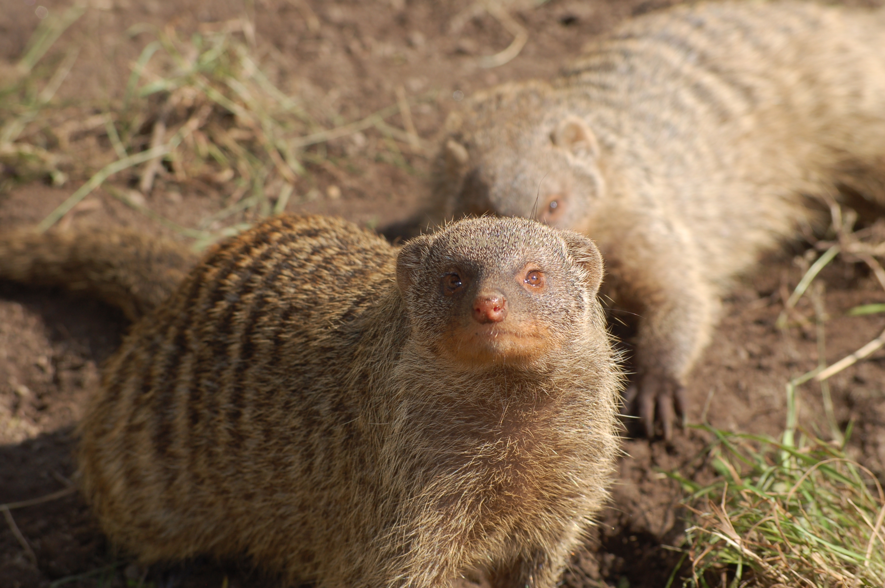 A Banded Mongoose at Borås Djurpark 2008